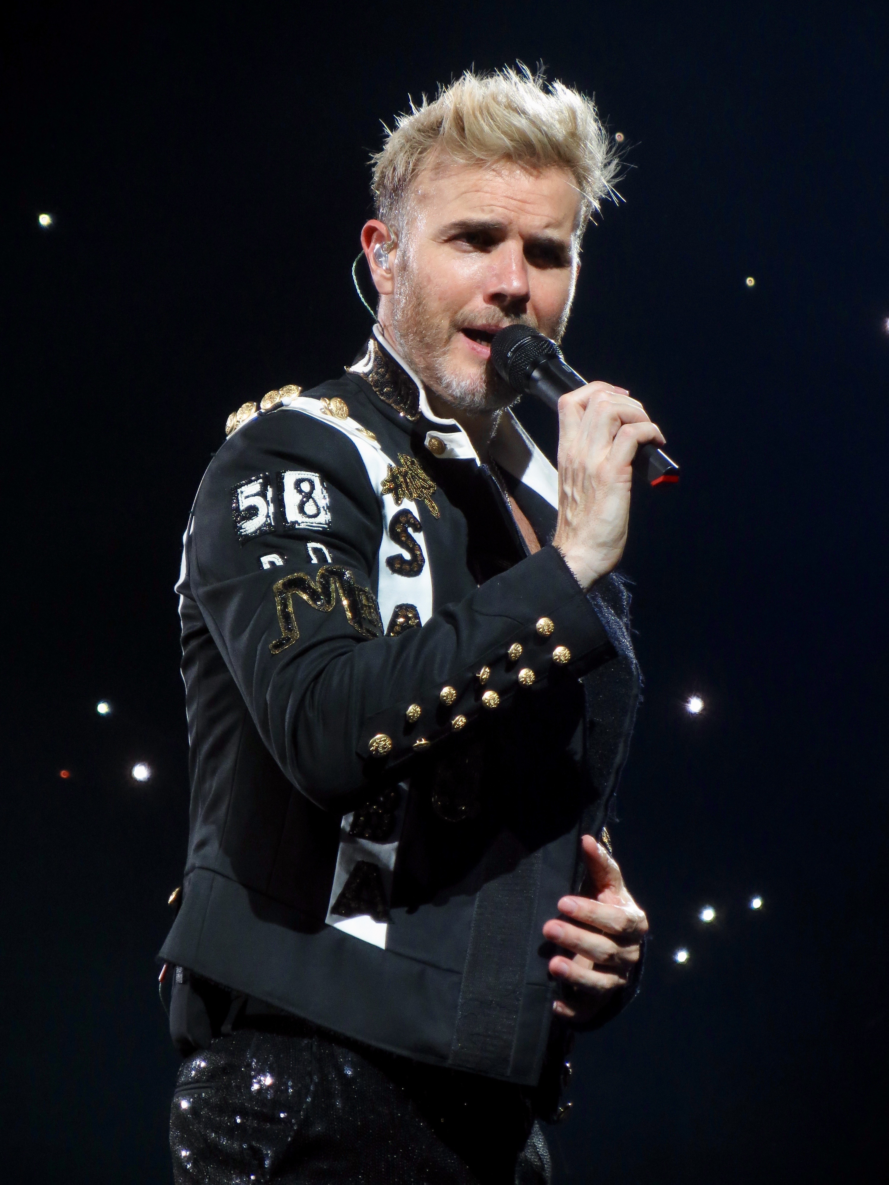 Gary Barlow performing at the SSE Hydro in Glasgow during their Wonderland Live tour in 2017